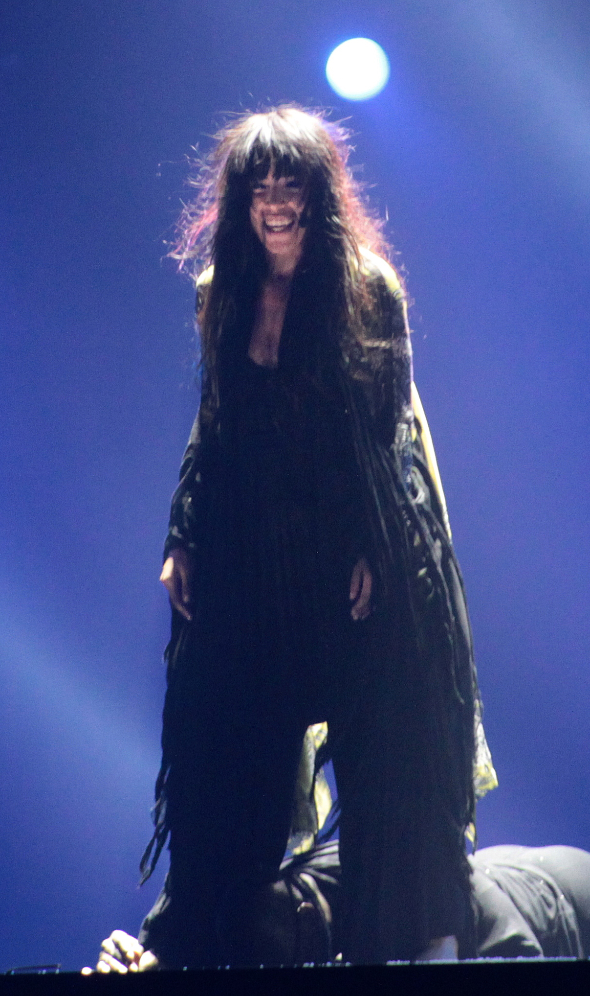 The winner Loreen (Lorine Zineb Noka Talhaoui) in Eurovision Song Contest 2012 in Baku, Azerbaijan. Original photo by Gulustan. Crop by Achird.